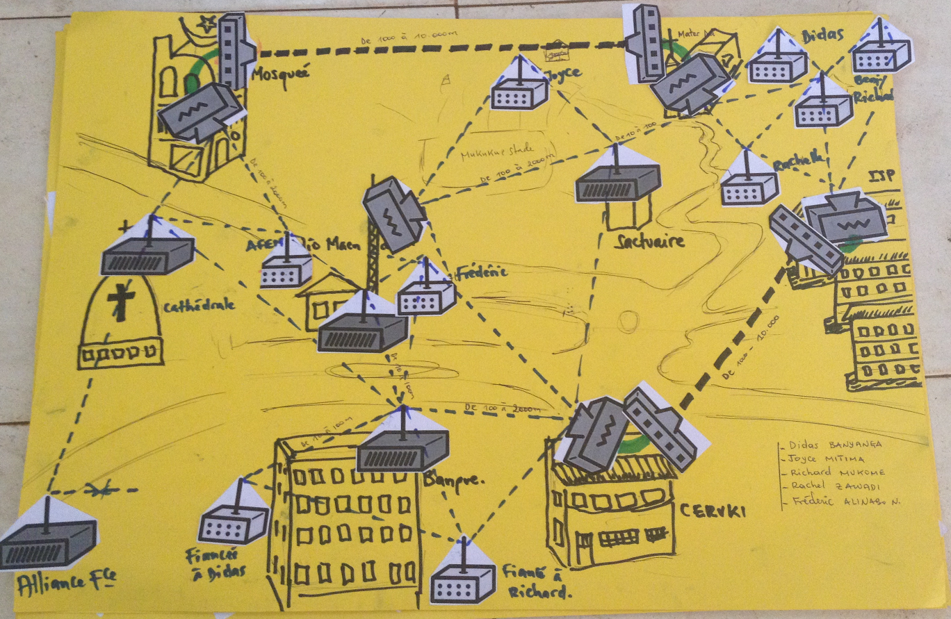 mesh networking